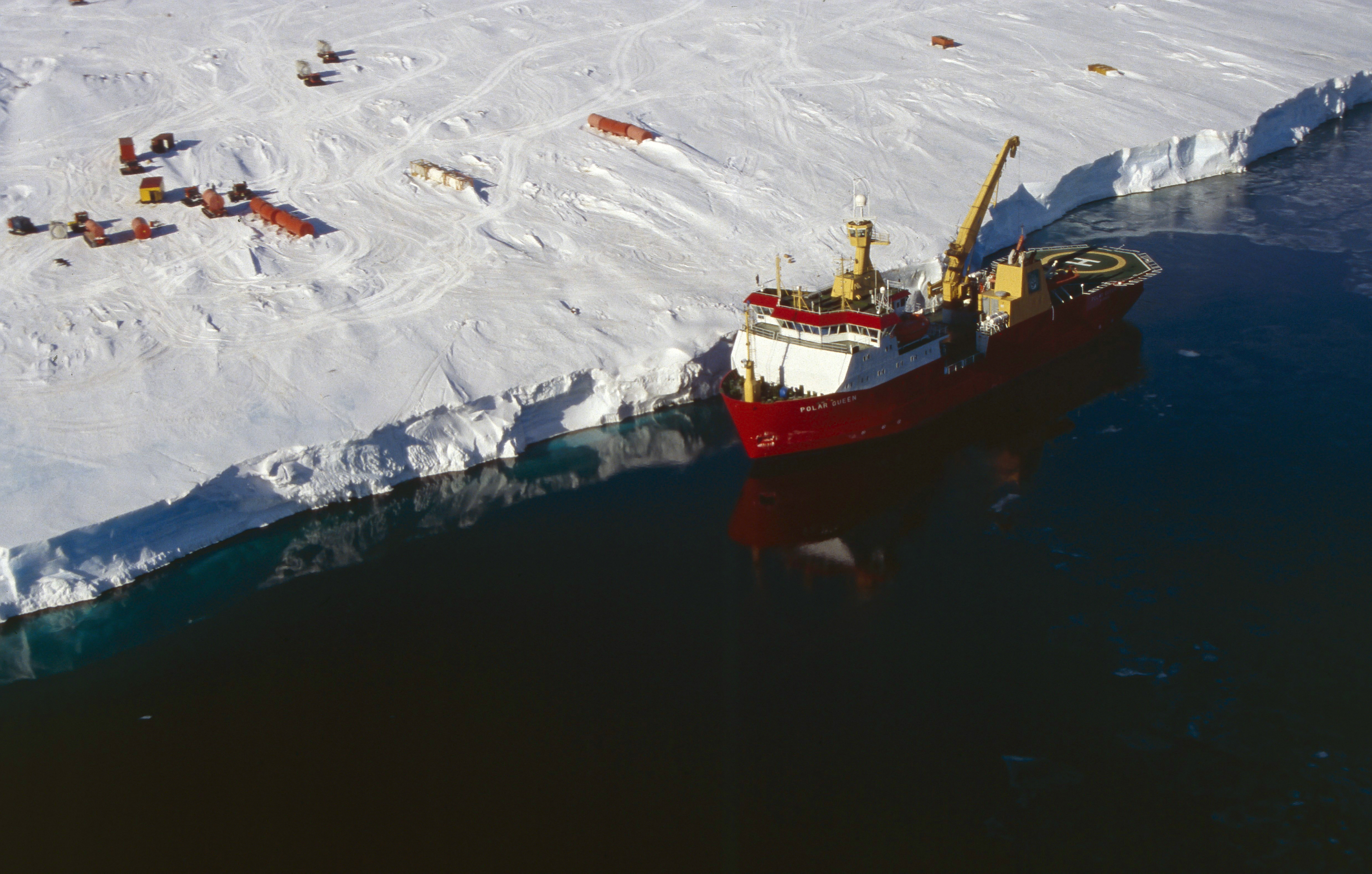 Polar Queen II (now RV Ernest Shakleton) at the ice shelf near the Schirmacher Oasis, Antarctica